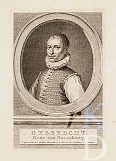 Gijsbert van Bronckhorst en Batenburg died: 1-6-1568 at Brussel. Tekende samen met zijn broer Dirk het Verbond der Edelen. Beide broers begaven zich in dienst van hun neef Hendrik van Brederode. Nadat hun leger in 1567 uiteenviel vluchtten zij naar Emden, werden onderweg verraden en naar Brussel gevoerd waar zij onthoofd werden.